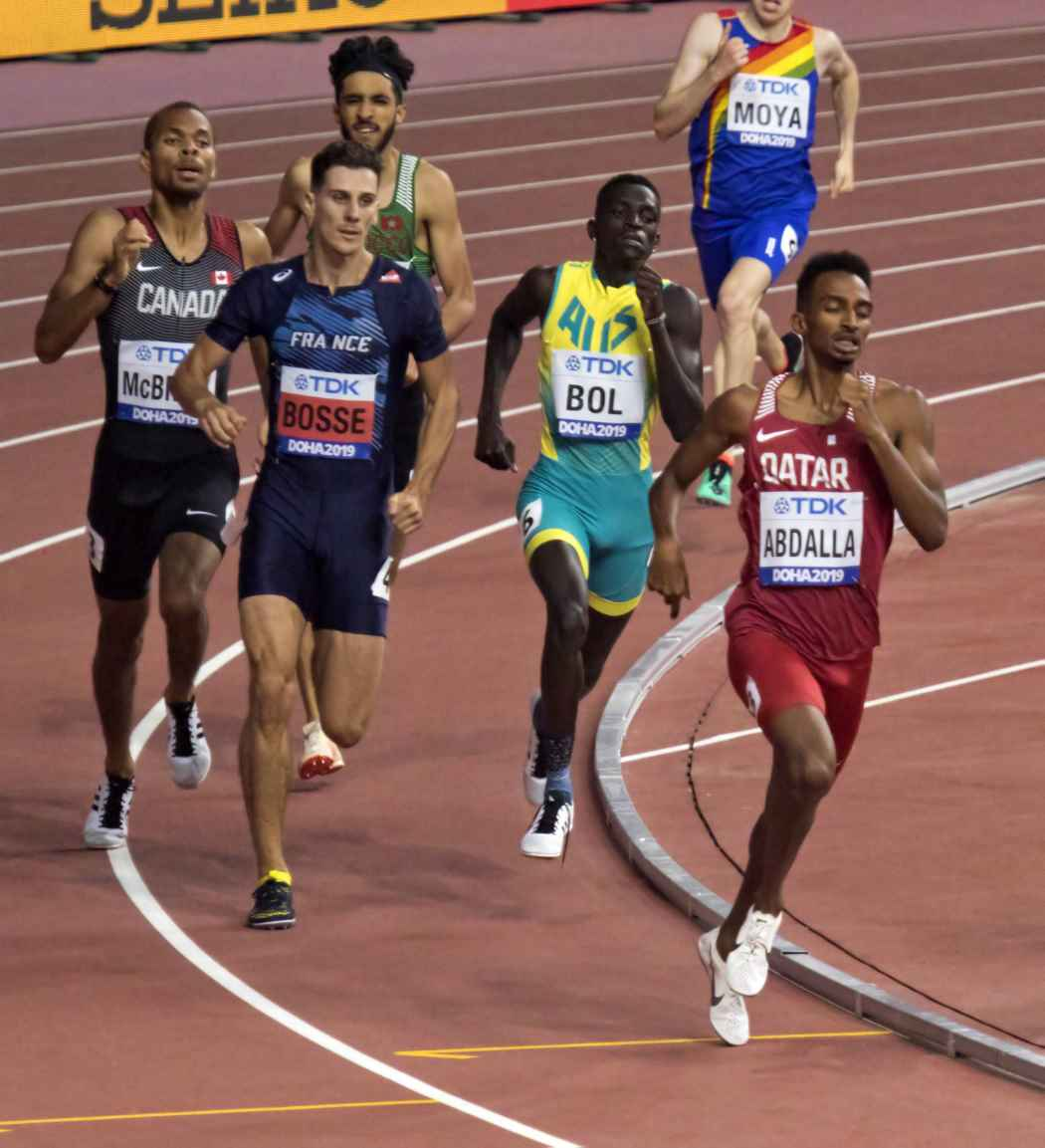 DOH20043 800m men heats bosse bol abdalla